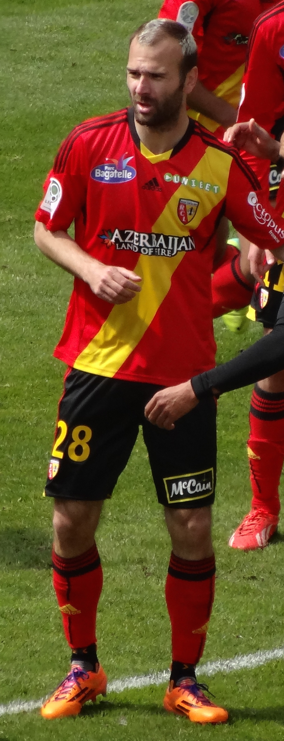 Danijel Ljuboja (RC Lens)